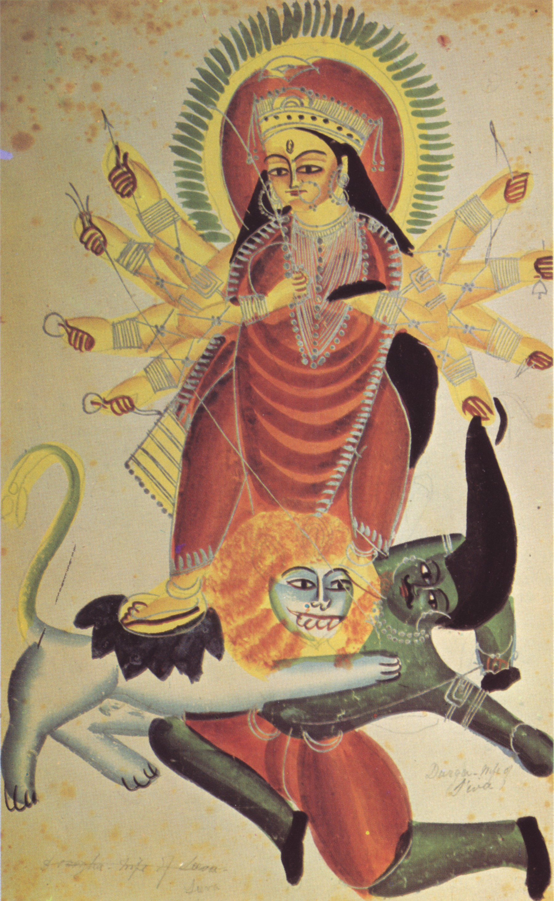 Image Dive 3 at A Journey Round My Skull